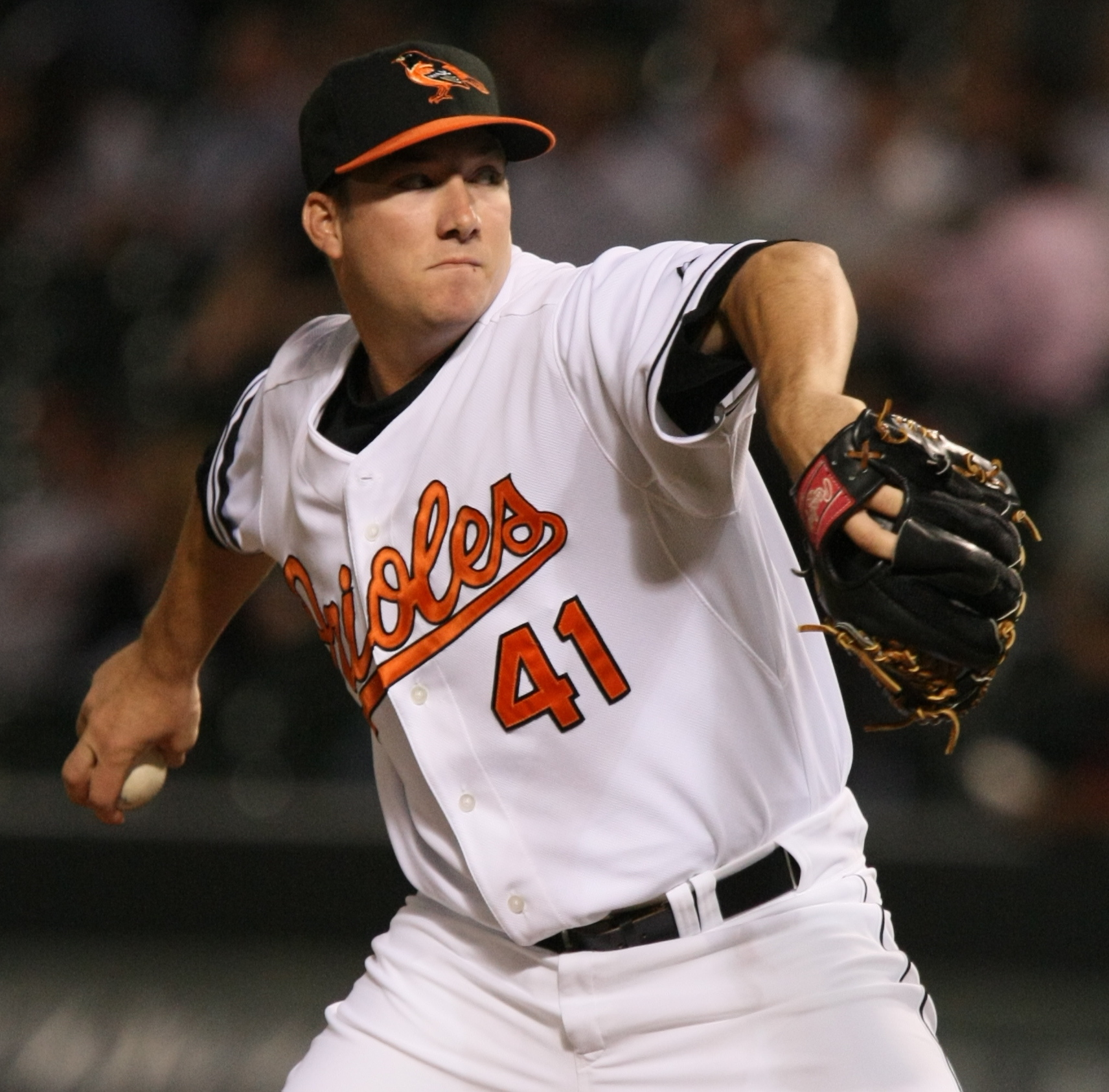 Bob McCrory delivers a pitch for the Baltimore Orioles at Camden Yards in Baltimore in 2008